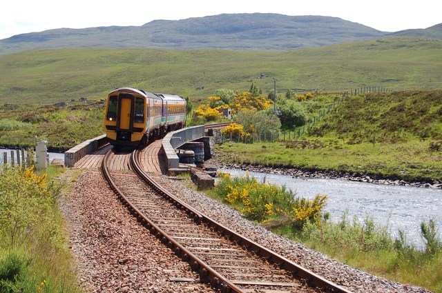 The train to Kyle of Lochalsh. A train running from Inverness to Kyle of Lochalsh crossing the bridge between Loch Achanalt and Loch a' Chuilinn.